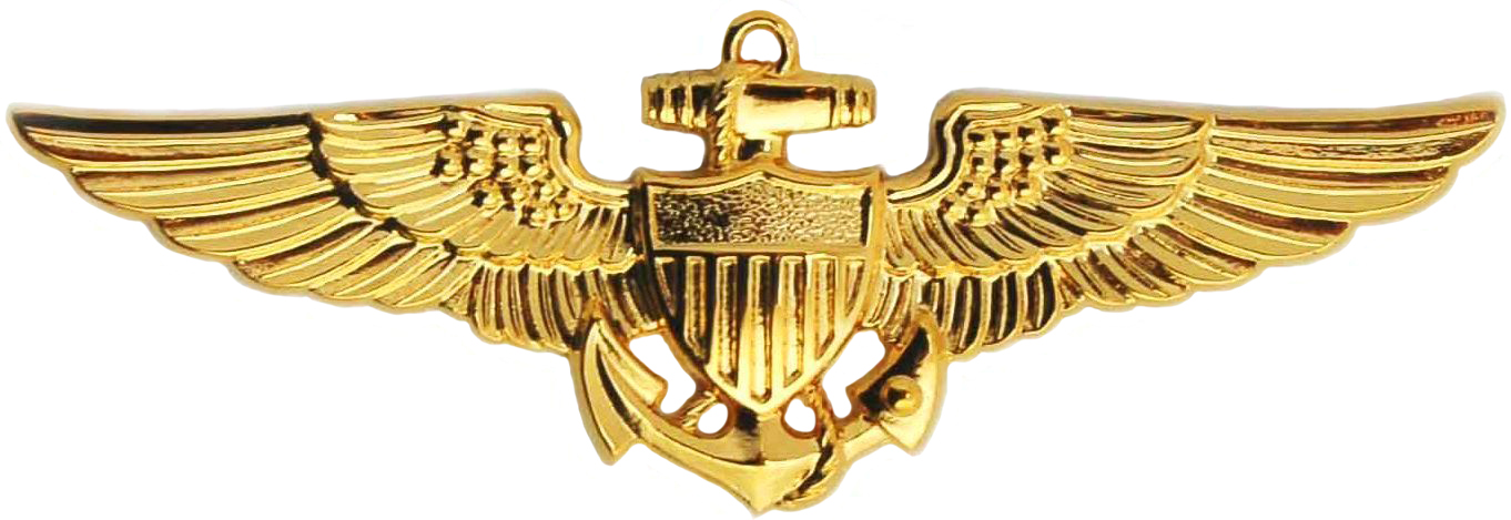 Naval Aviator insignia, worn by pilots in the U.S. Navy. See U.S. Navy Uniform Regulations: 5201 - Breast Insignia.